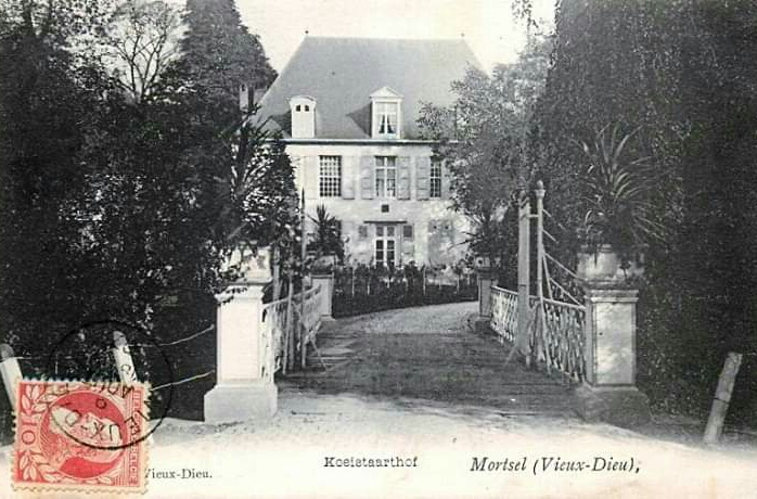 Hof Koeisteert